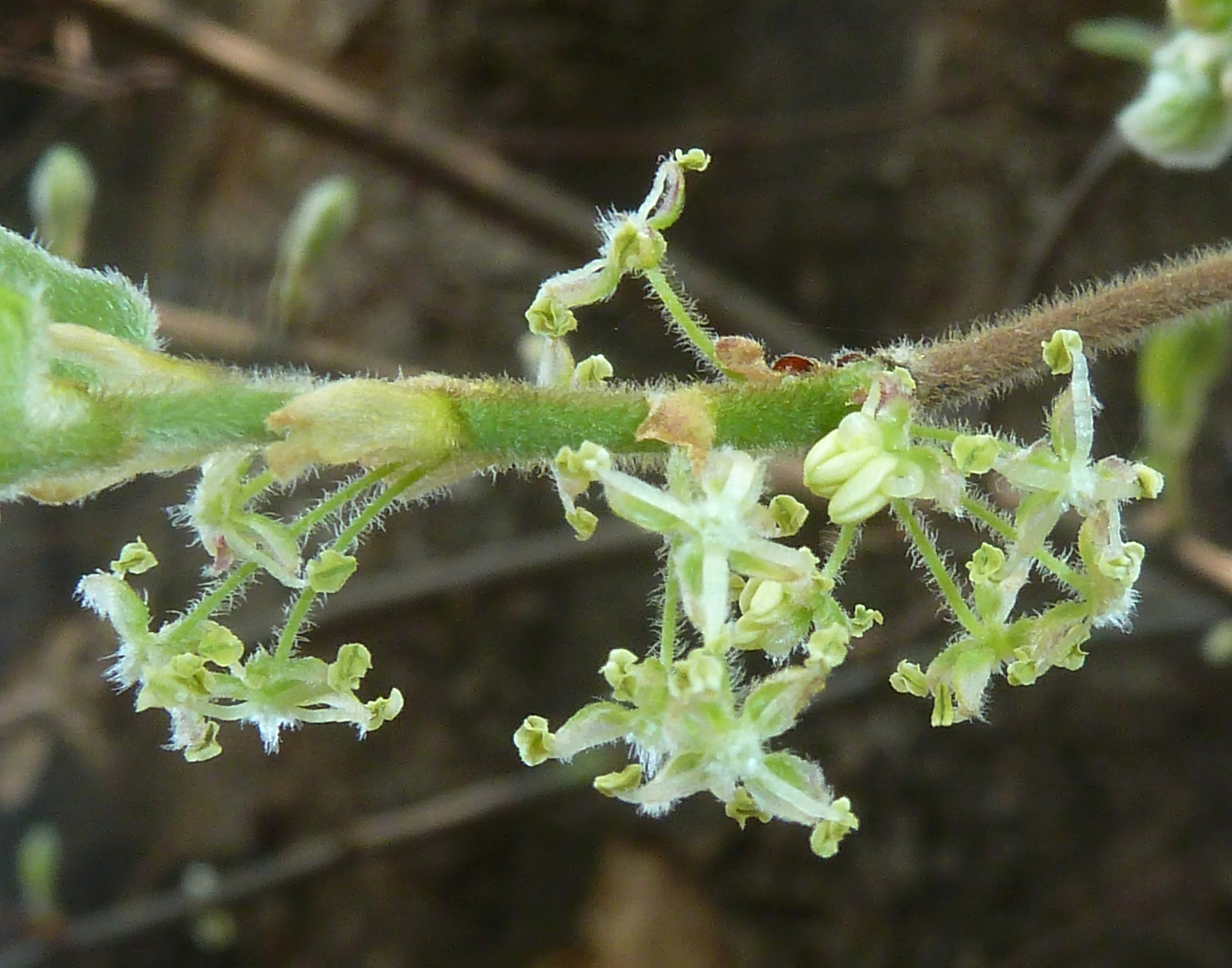 Clusters of staminate (male) flowers of White stinkwood, with 4 tepals and 4 stamens each, in the Manie van der Schijff Botanical Garden, Pretoria